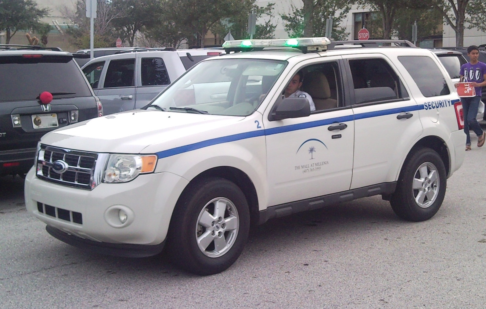 2009-2012 Ford Escape Mall At Millenia photographed in Orlando, Florida, USA.